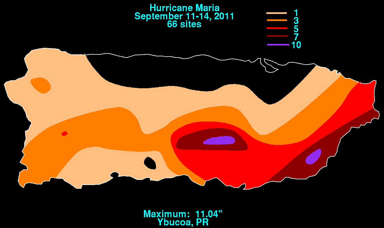 Storm total rainfall map of Hurricane Maria during September 2011.